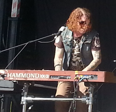 Dead Daisies performing at Uproar Festival 2013